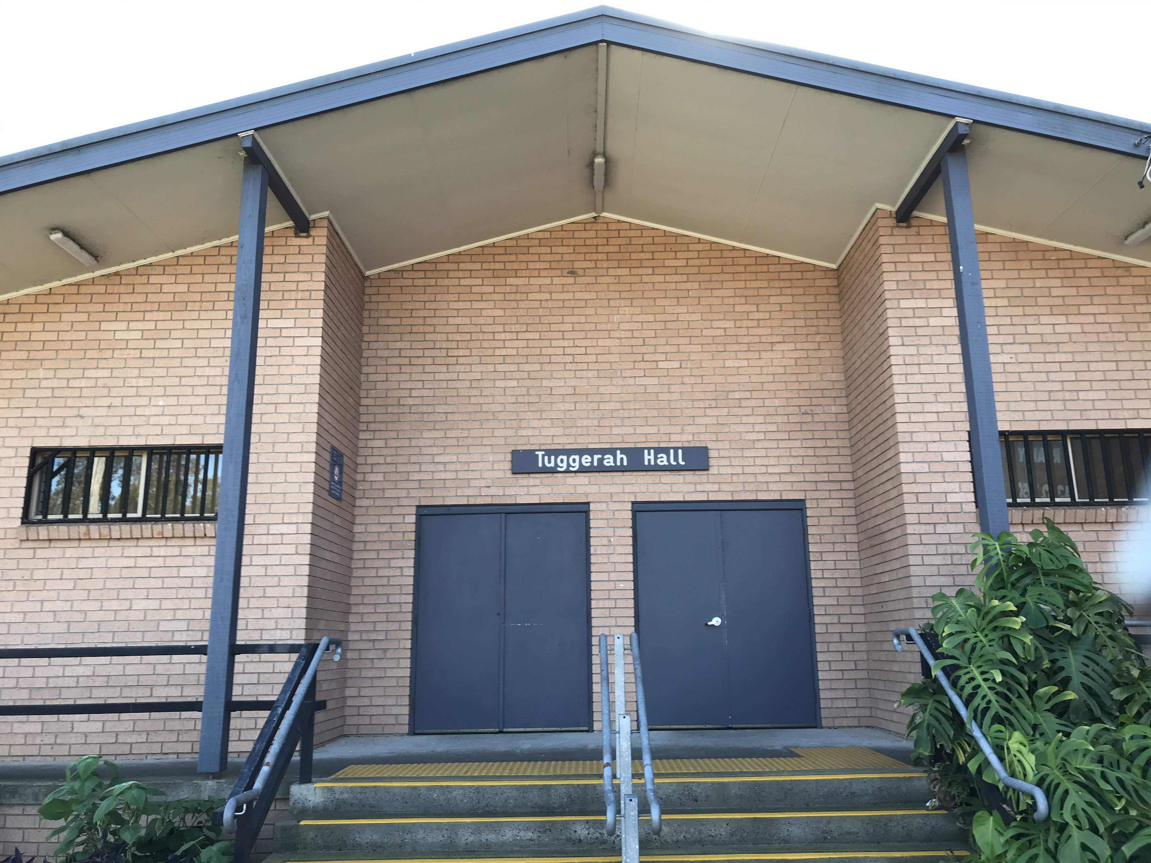 Front of Tuggerah Community Hall